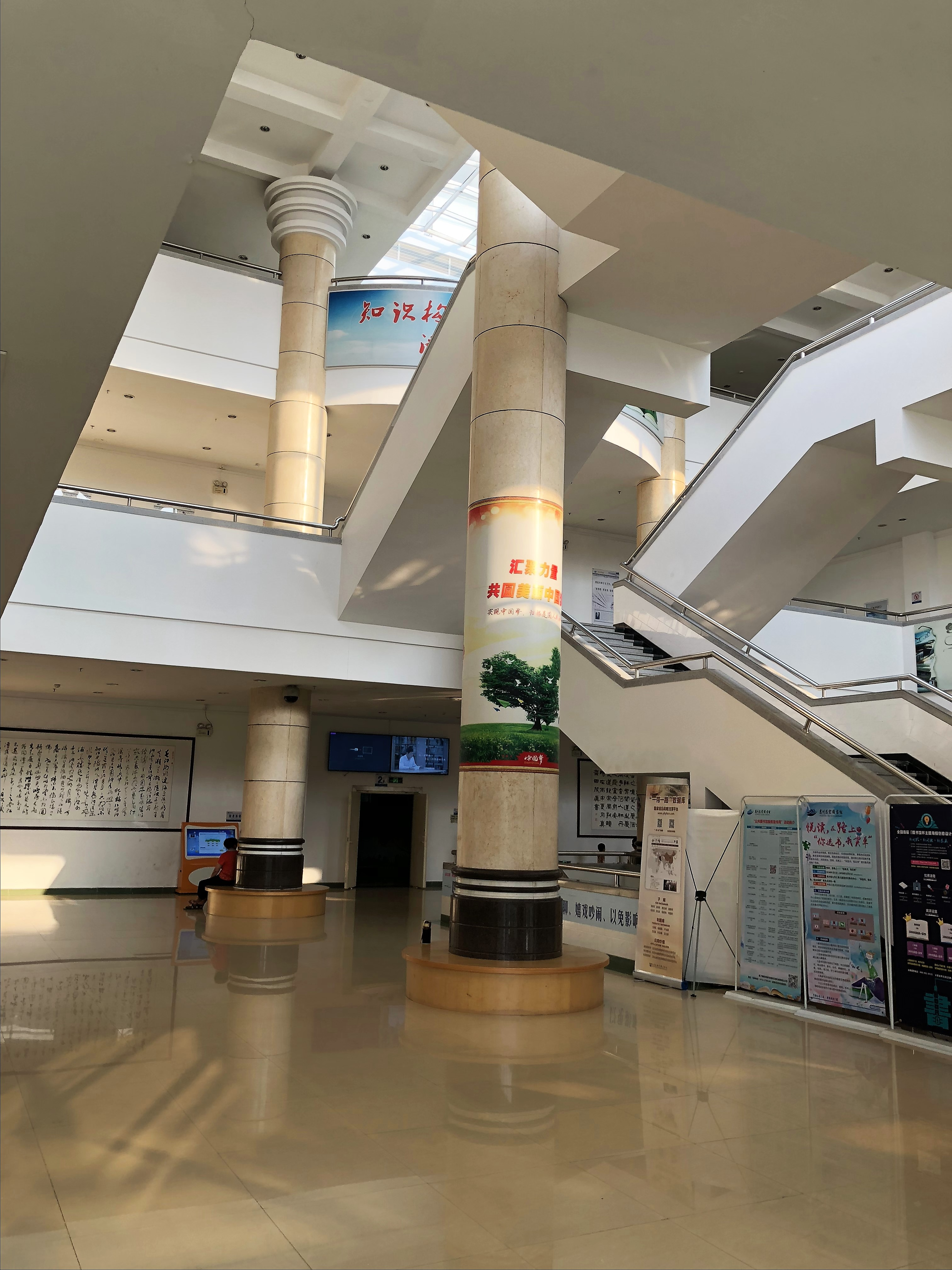 Huizhou Tsz Wan Library The Hall